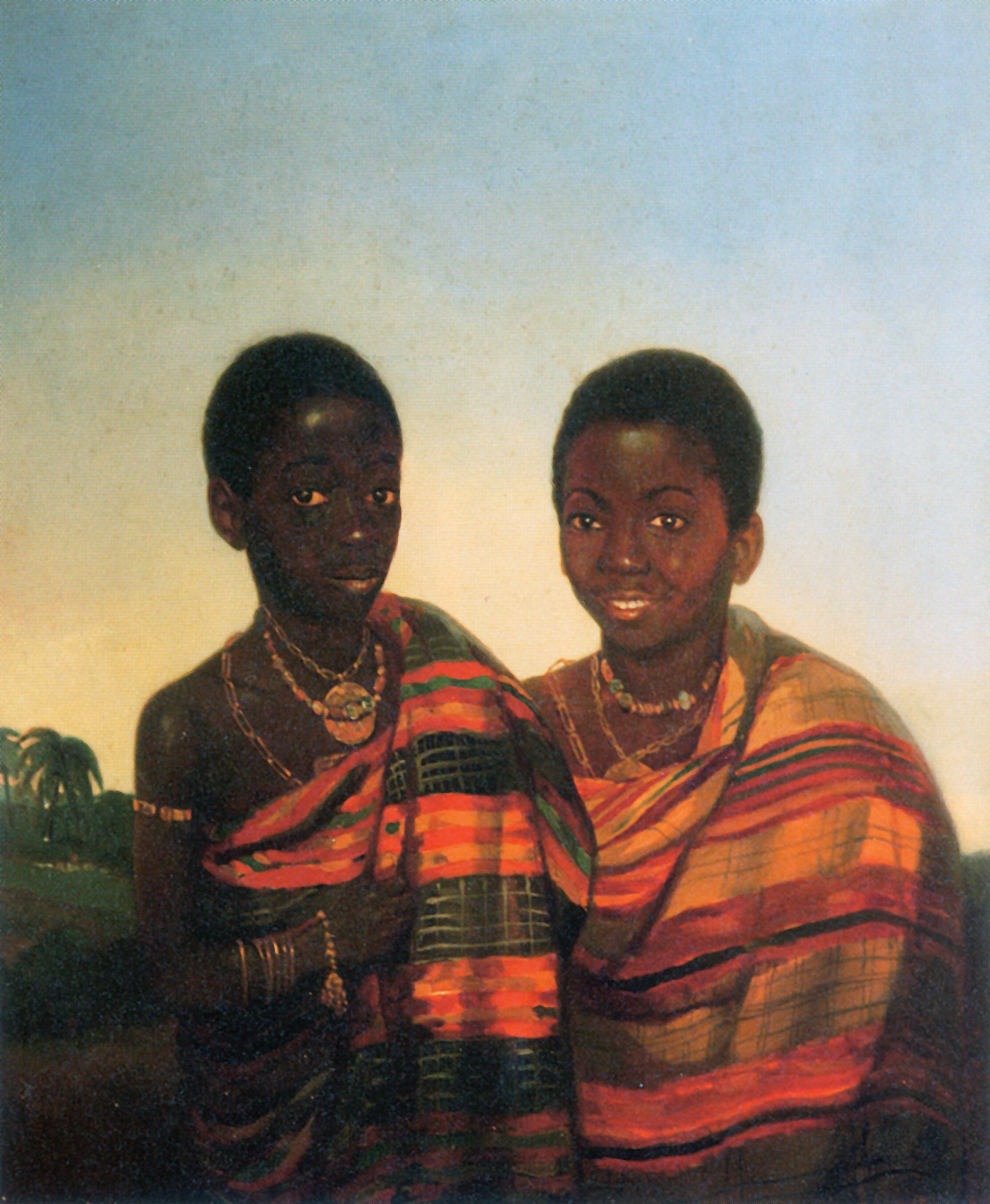 Aquasi Boachi and Quamin Poko, sons of king Quakoe Dua of the Ashanti people. Quamin Poko claimed to be the heir to the throne.